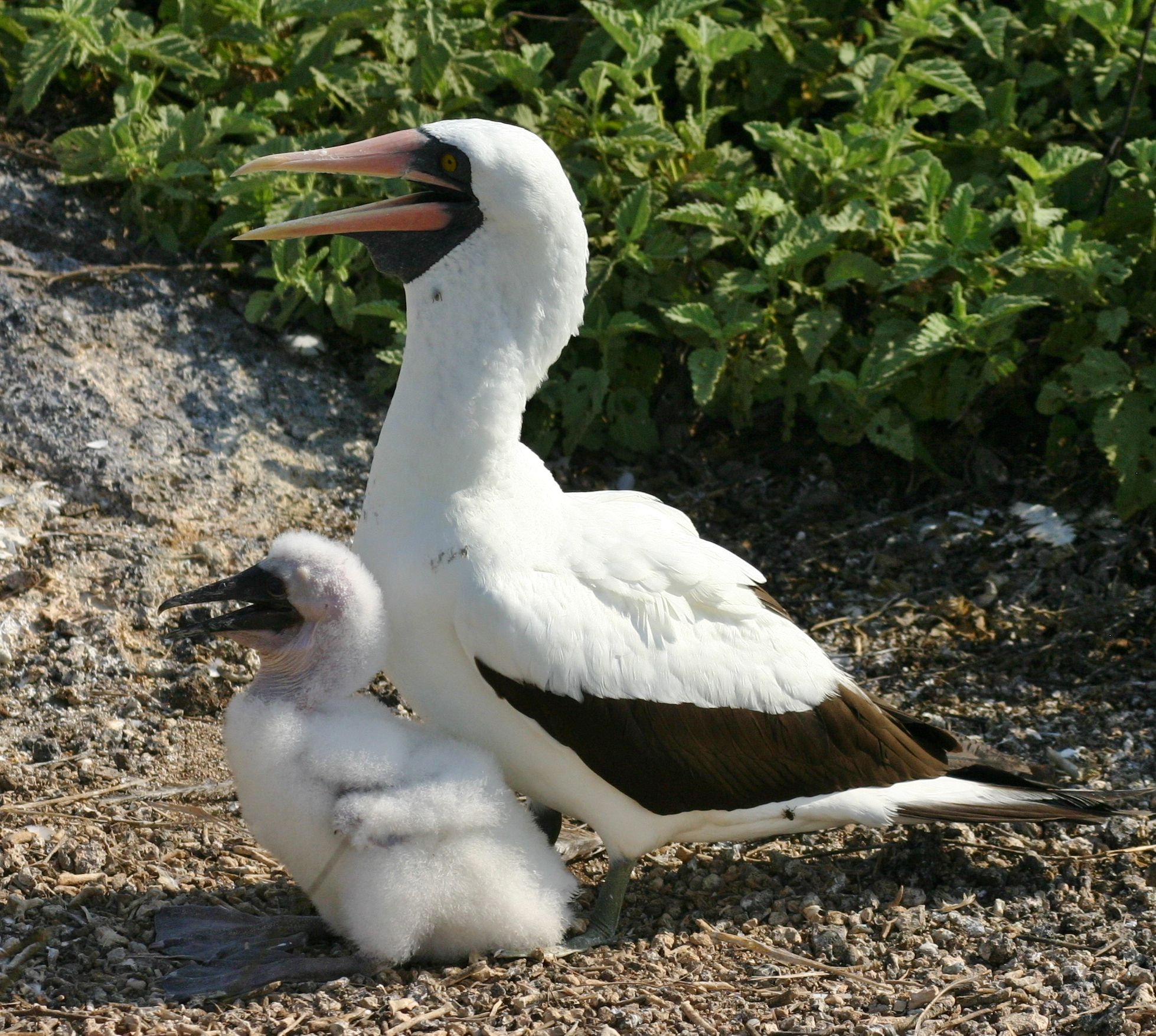 Nazca booby (Sula granti) and chick, Galapagos Islands